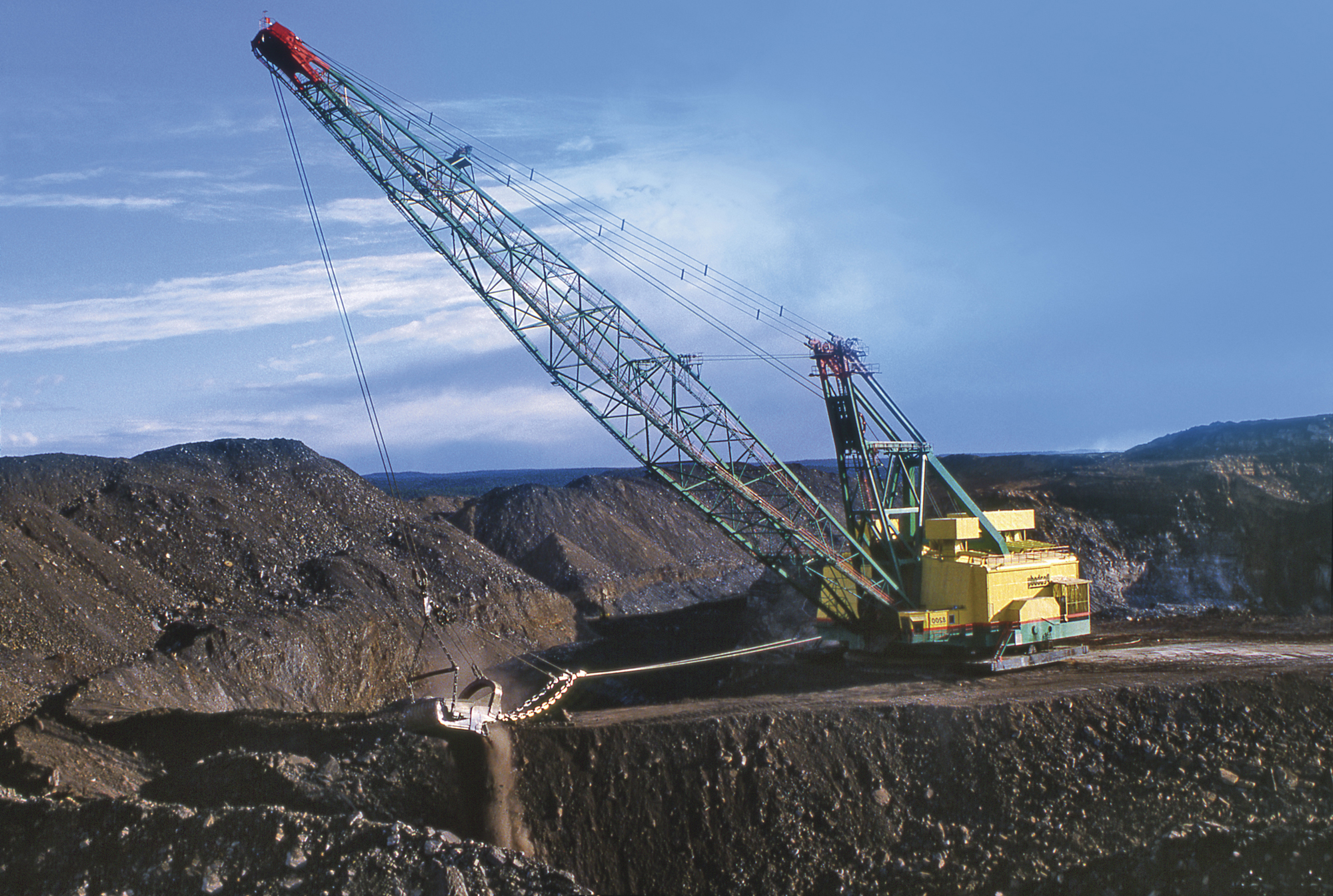 A Marion 8200 working to strip overburden at an opencut coal mine.